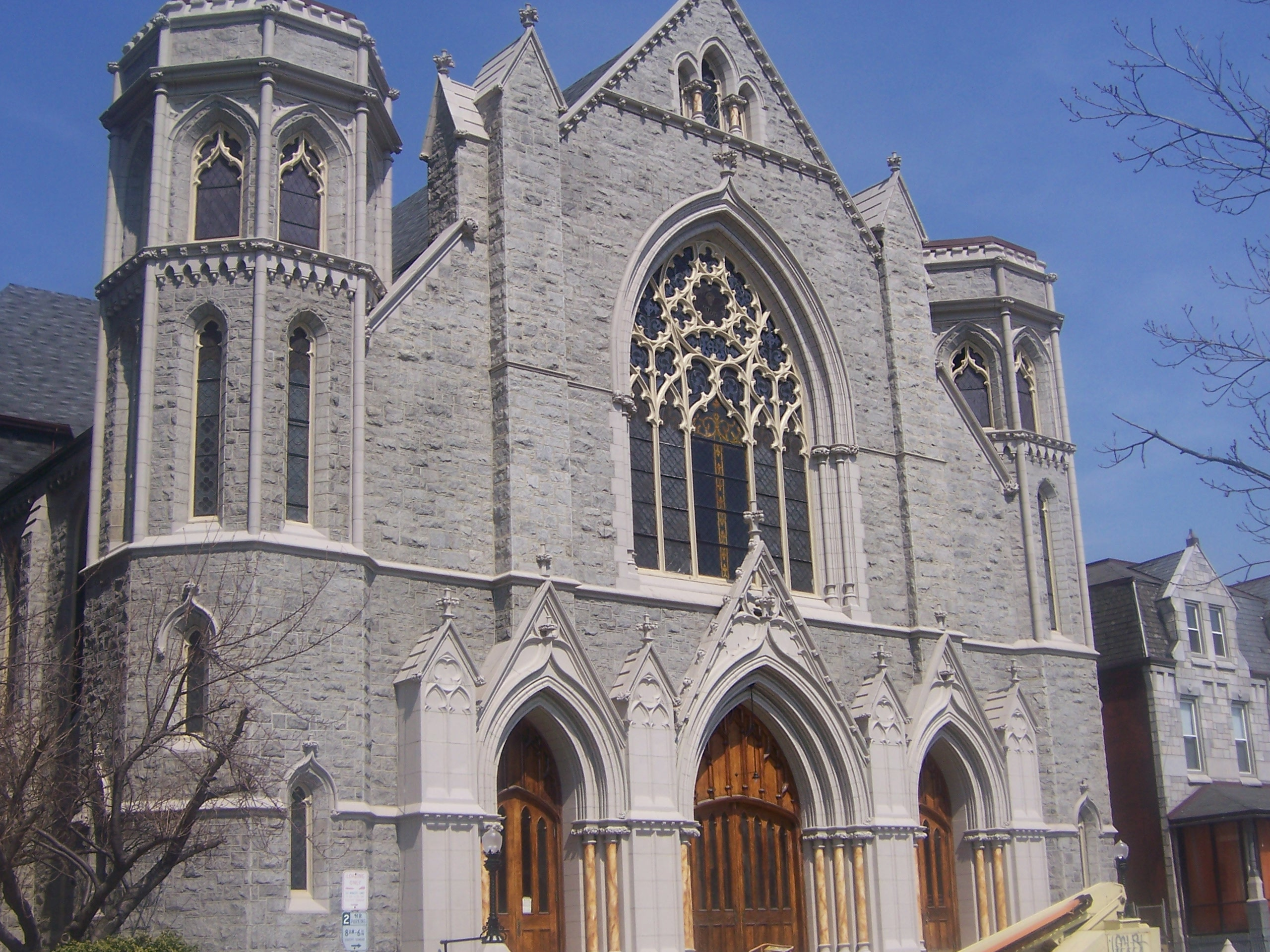 Chestnut Street Baptist Church and Ternacle Baptist Church in West Philadelphia (4017 Chestnut Street)